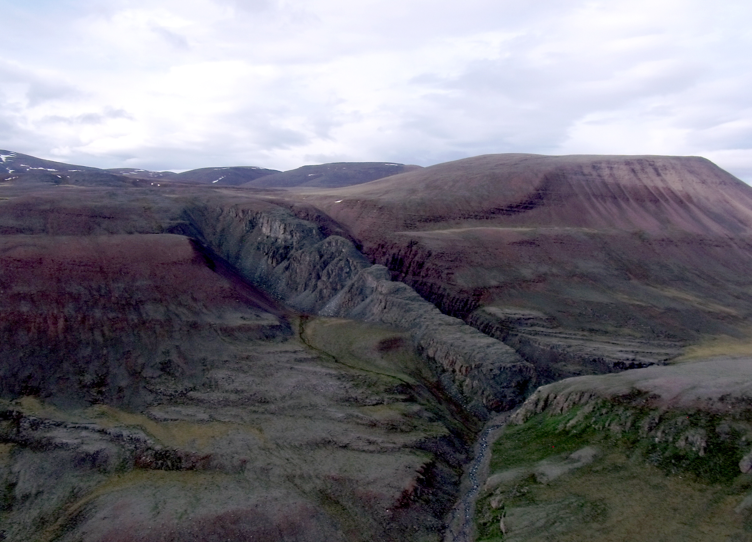 Large olivine gabbro intrusive between Pond Inlet and Arctic Bay in northwestern Baffin Island. Handheld from speeding helicopter. The 723 million year-old Franklin Magmatic Event went clear across what is now Arctic Canada. Here is a link to flat-lying Coronation Sills of the same igneous rock in western Nunavut not far from its mantle plume source further west: Some of the swarm of large vertical dikes in northwestern Baffin Island continued down the length of one of the world's biggest islands before the non-surfacing crustal-cracking magmatic pulse ran out of gas (or continent) some 3000 km from where it all started.